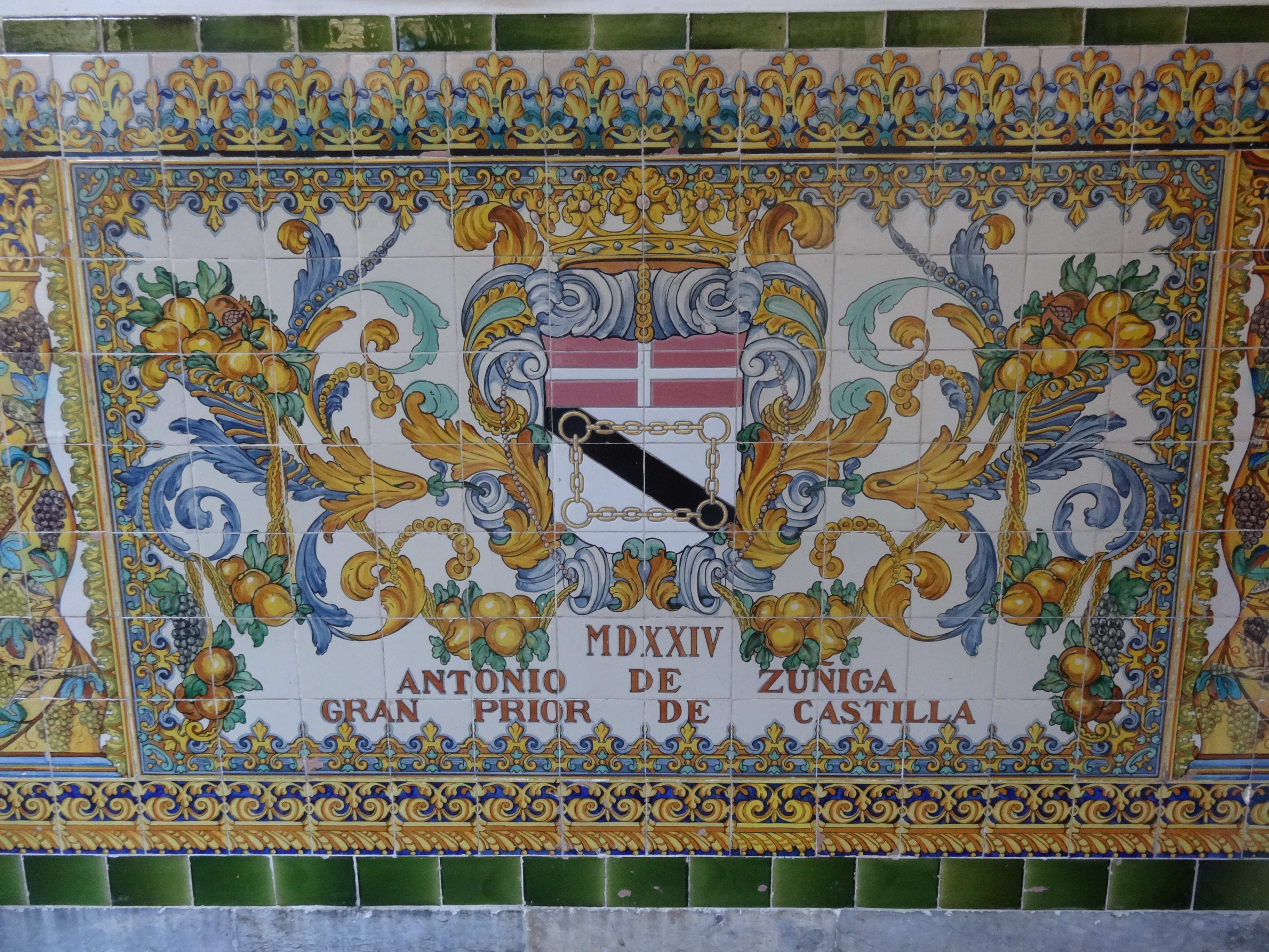 Decorated tiles at the cloister of the former Convent de la Mercè, Capitania General de Barcelona